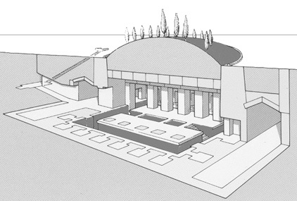 schematic view of the osireion of Abydos